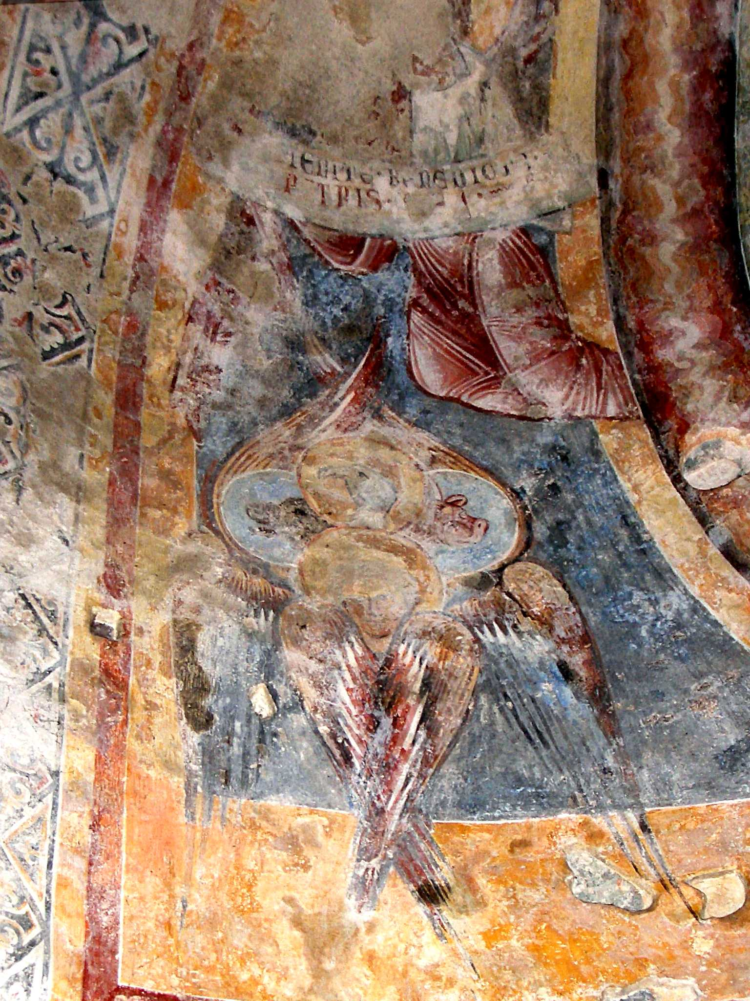 Riva San Vitale, :Last Judgment, detail of the Tetramorph, Romanesque fresco, X – XII century